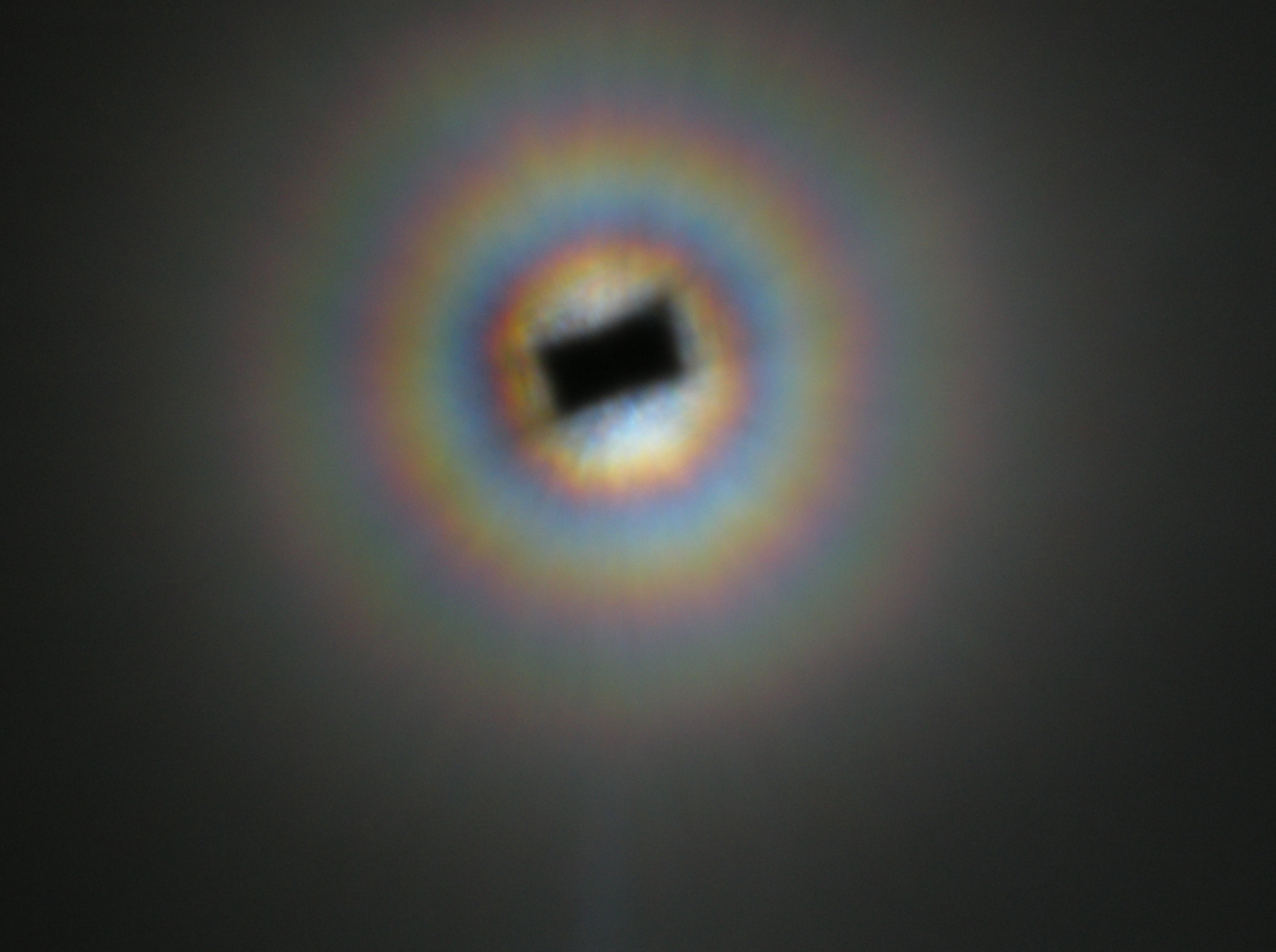 Corona around a LED lamp, created with lycopodium spores on a glass pane.